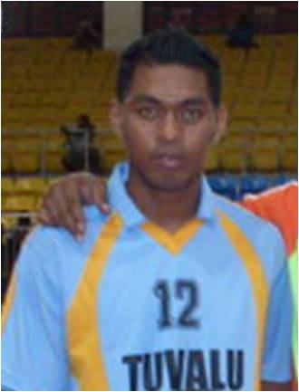 Afelee_Valoa